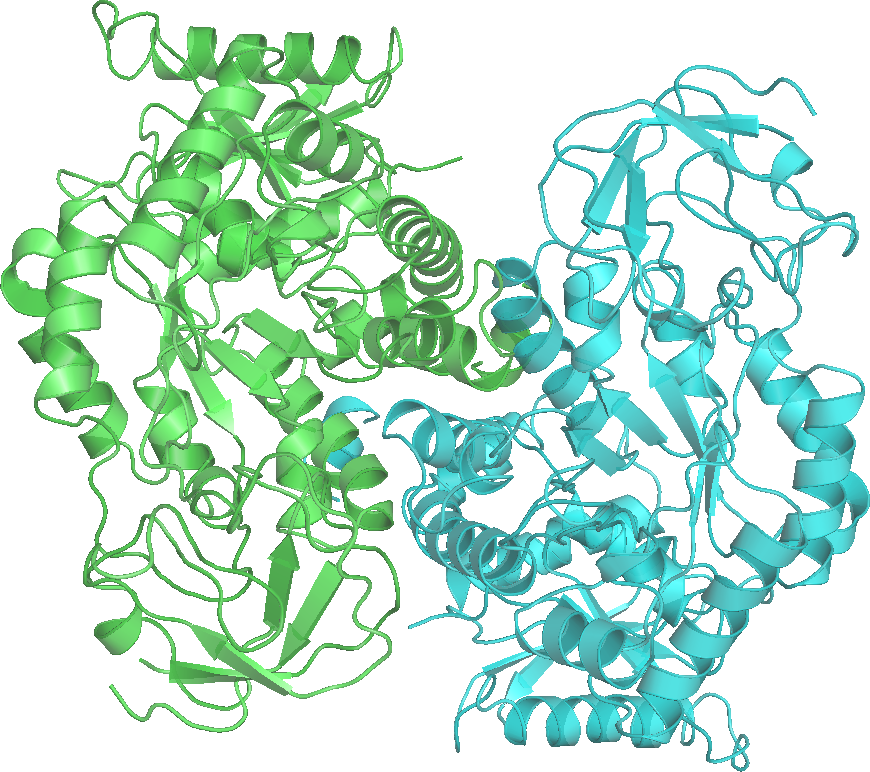 By Richard Wheeler (Zephyris) 2006. For the metabolic pathways wikiproject.